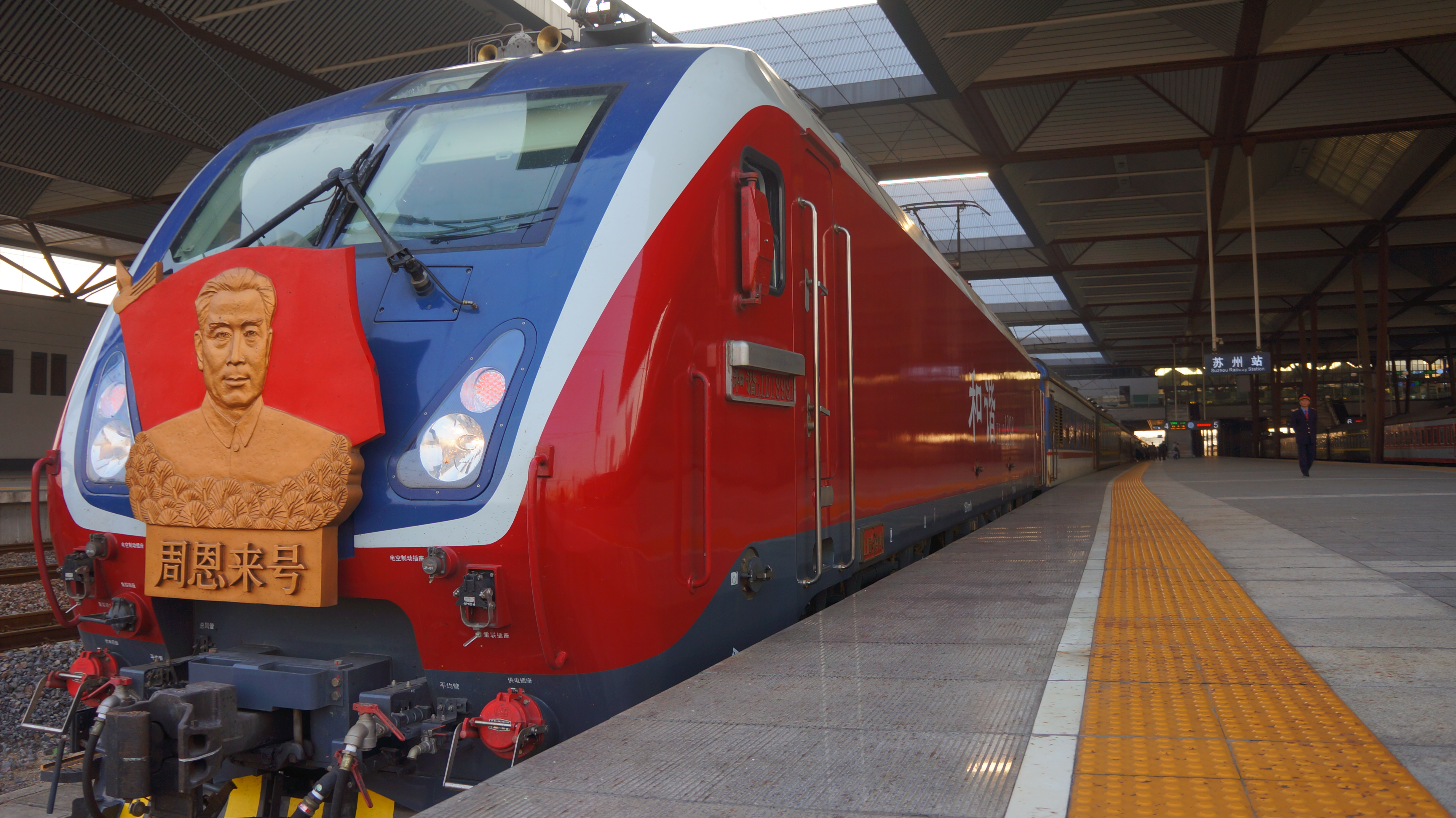 HXD1D-1898 drives T7605 at Suzhou Railway Station